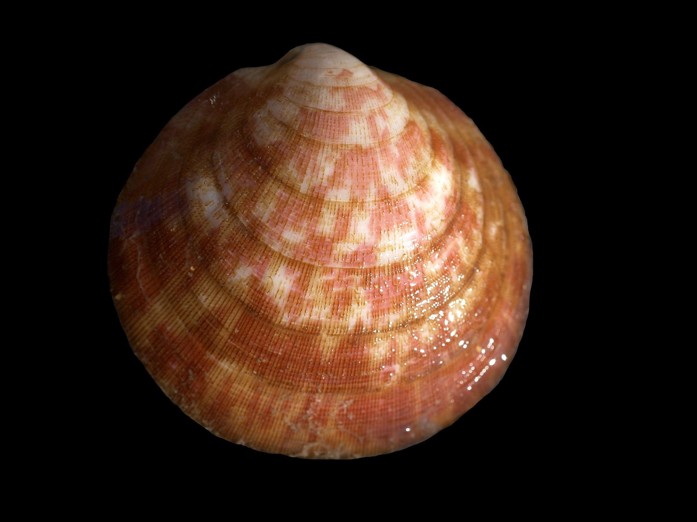 Dog cockle from the Middelkerkebank, Belgian continental shelf